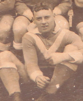 Photo of Selwyn Baker from 1931-1934